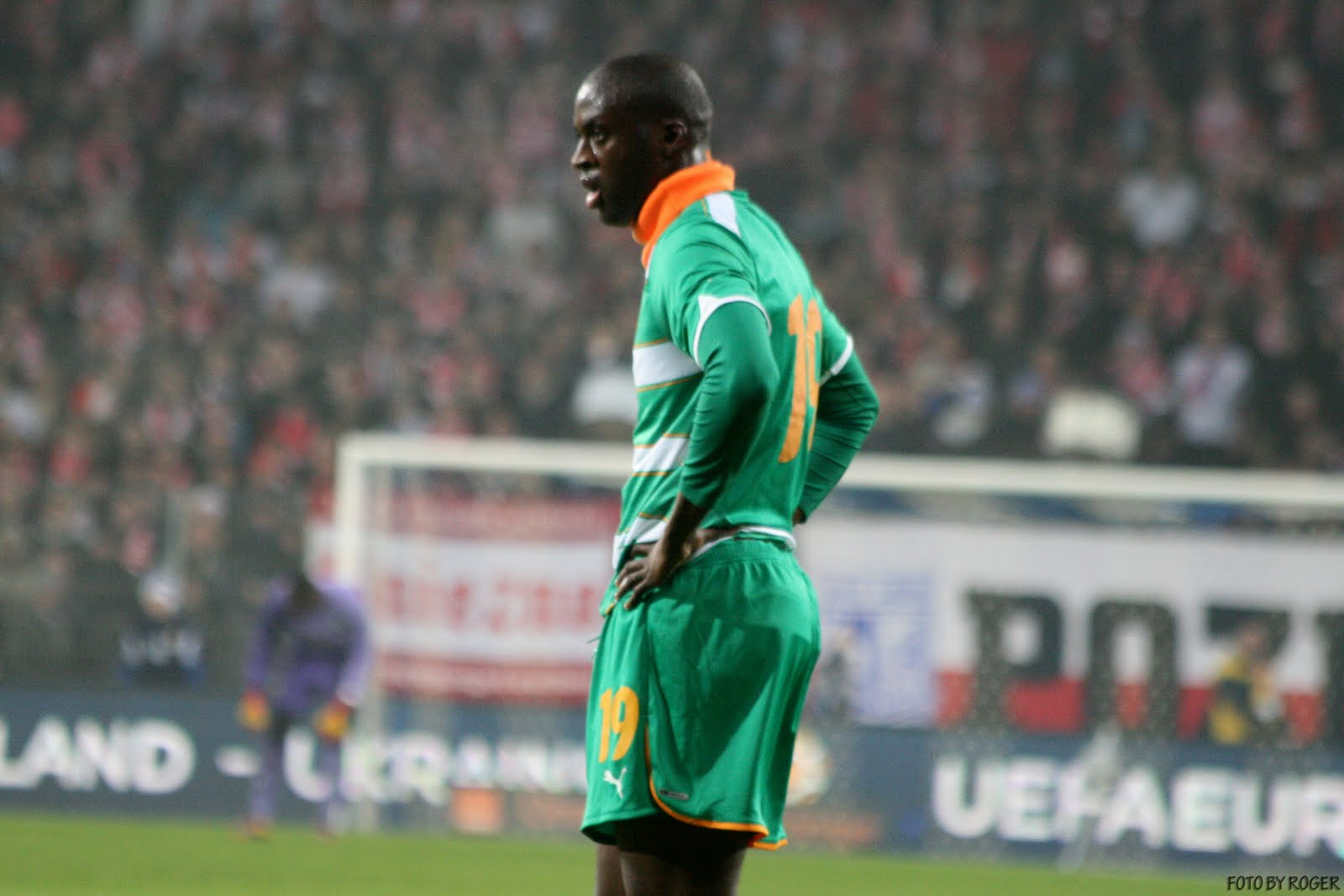 Ivorian football player Yaya Touré